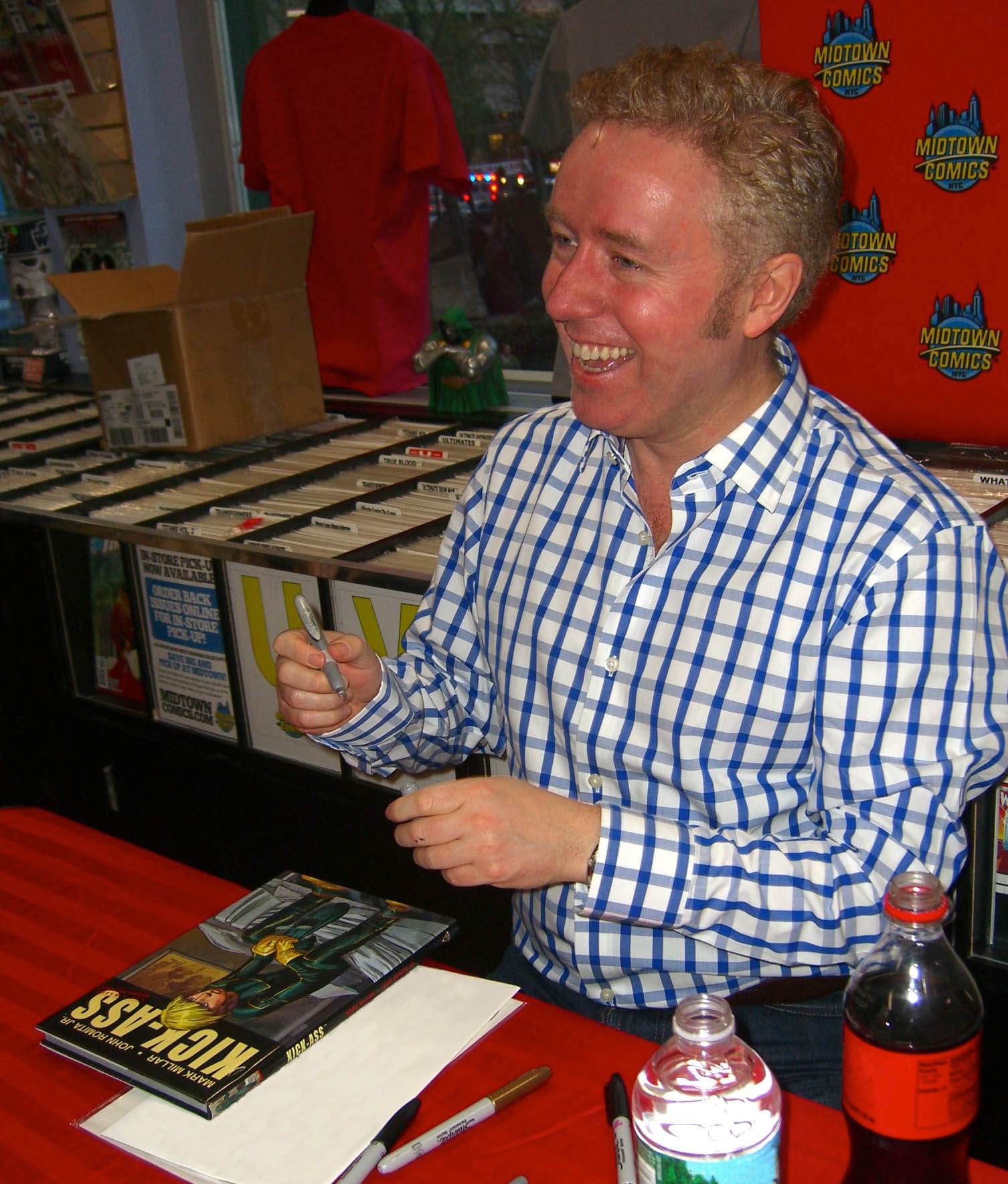 Scottish comics writer Mark Millar at an April 25, 2013 signing at Midtown Comics in Manhattan for his miniseries, Jupiter's Legacy, which debuted the day prior. In the photo, Millar is signing a copy of one of his previous works, Kick-Ass, on which the feature film of the same name was based. This photo was created by Luigi Novi. It is not in the public domain, and use of this file outside of the licensing terms is a copyright violation.